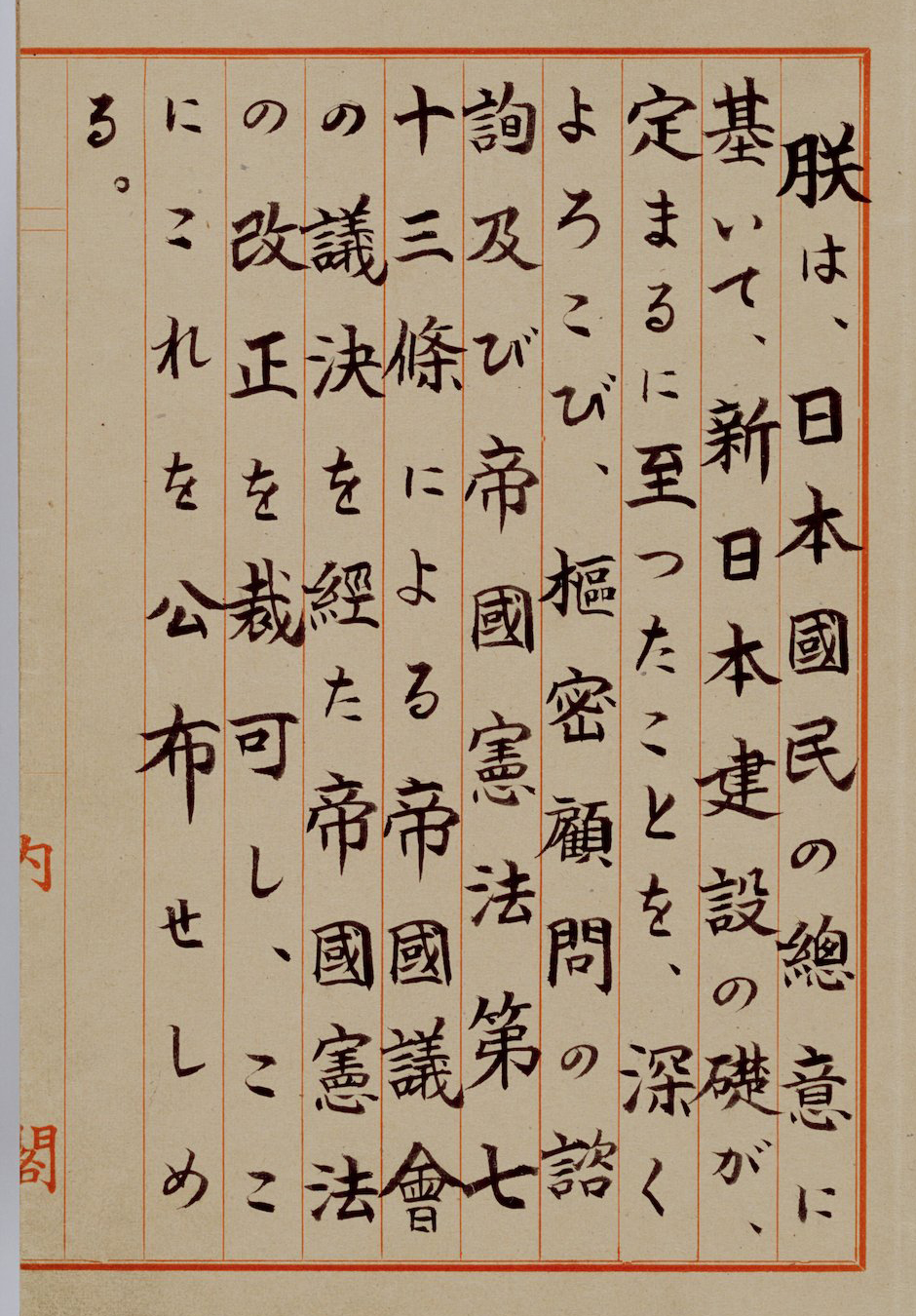 The original of "The Constitution of the State of Japan" This constitution was promulgated in 1946, and it was taken effect in 1947.